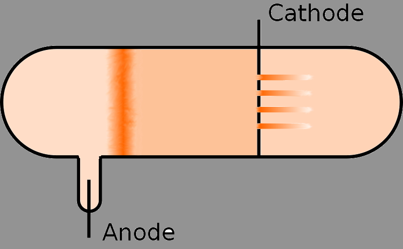 Derived from image in Proceedings of the Royal Society A 89, 1-20 (1913)